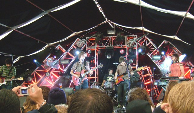 Absentee live at the Summer Sundae festival, Leicester, England, August 2006 Author: Mike Higgott